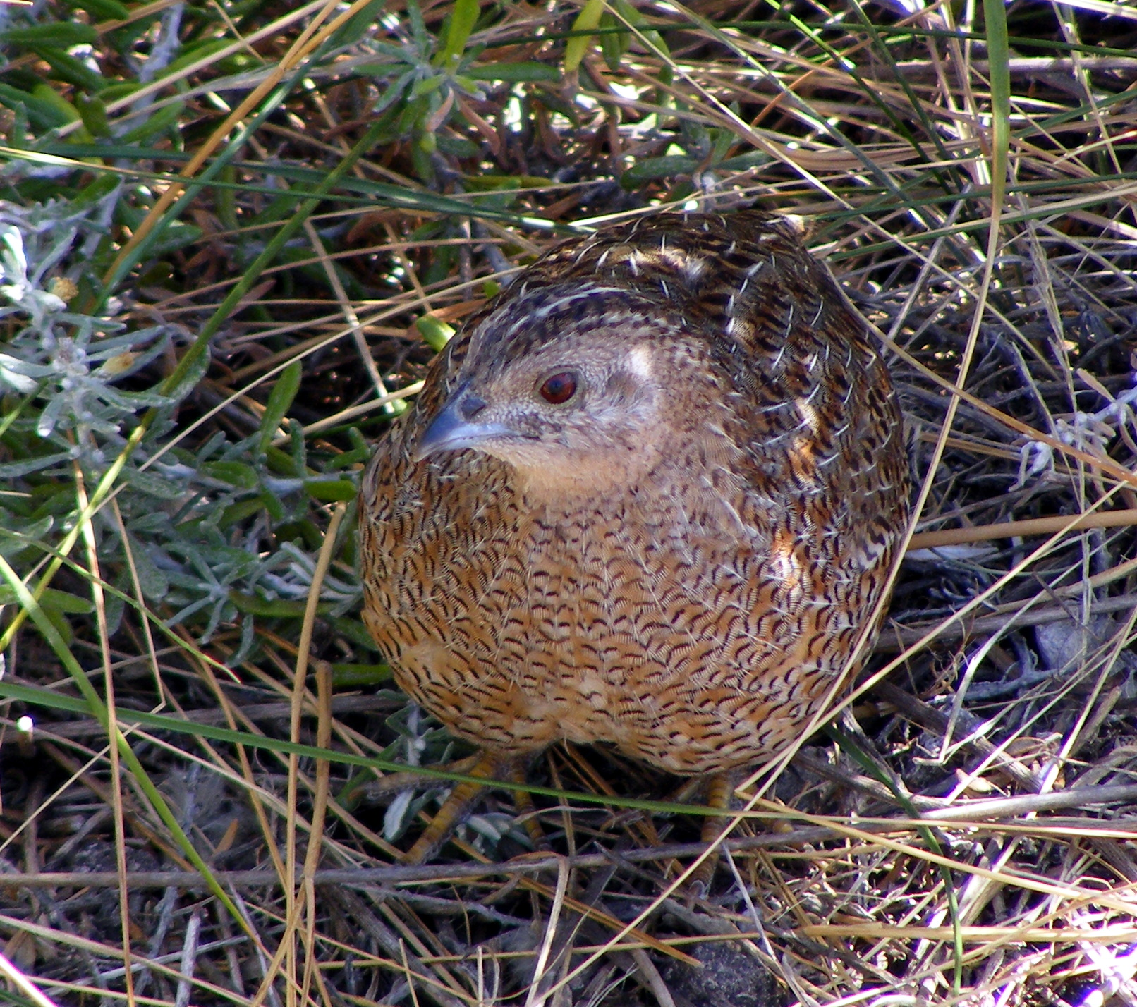 The Brown Quail (Coturnix ypsilophorus), Granite Island, Victor Harbour, South Australia